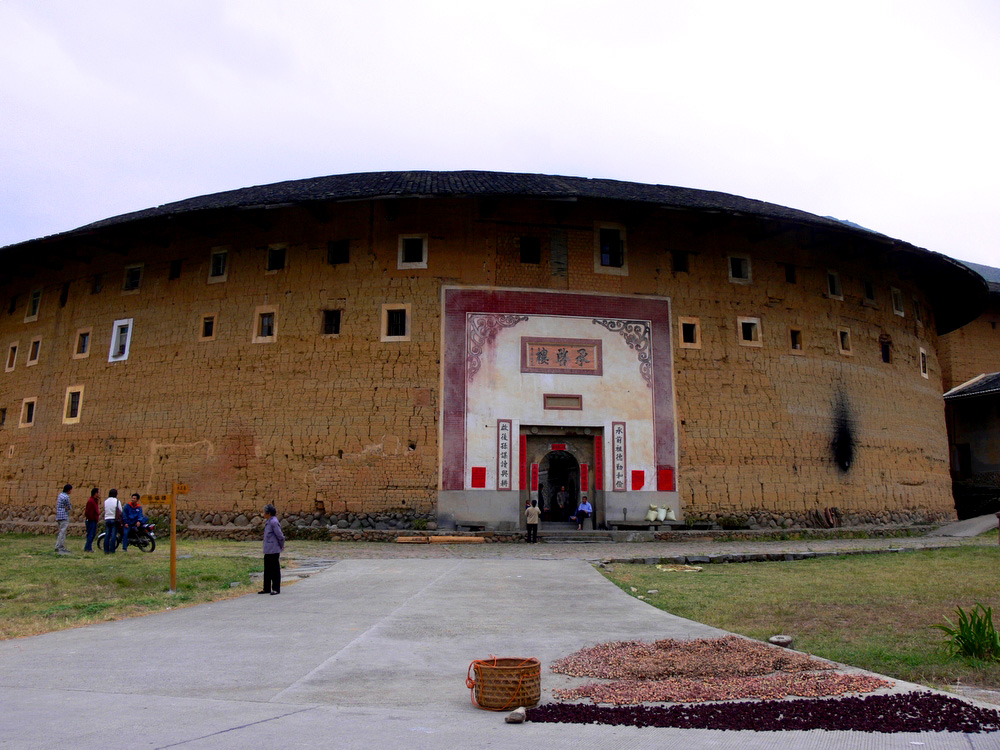 Chengqilou dubbed the "King of Tulou"